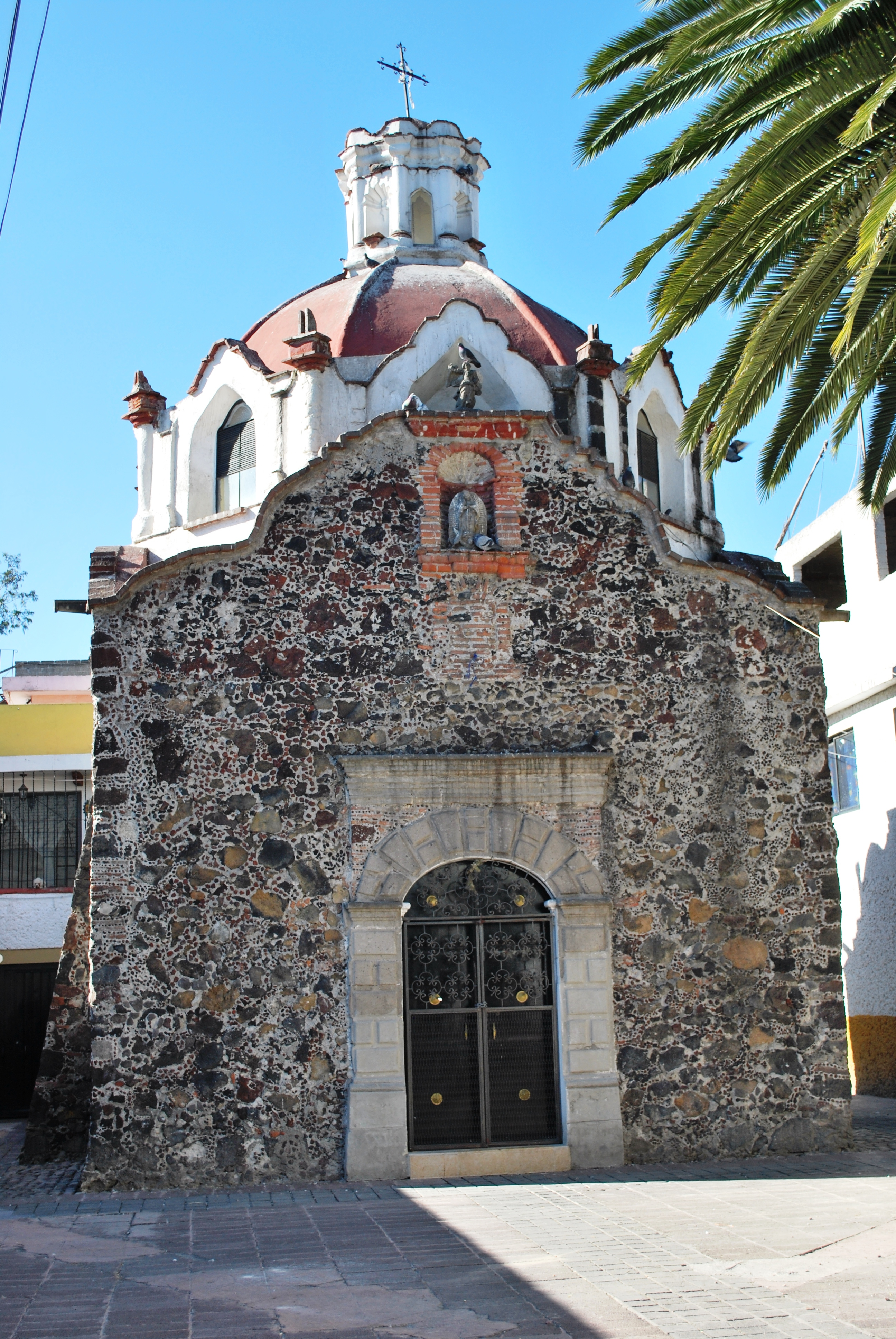 Hermitage in the Santa Cruz neighborhood in Iztacalco, Mexico City